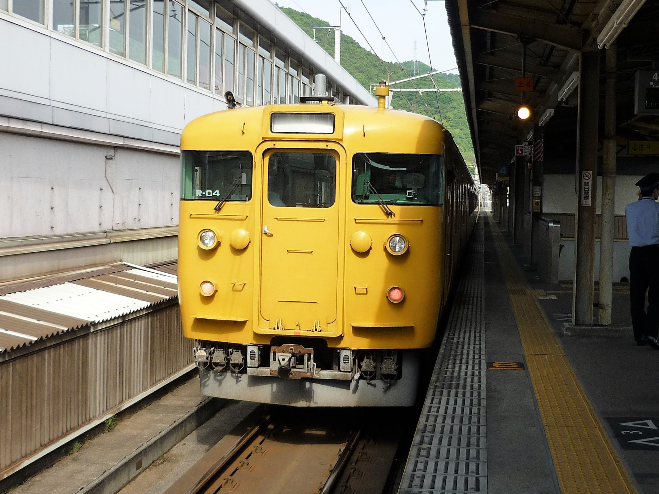 JR West 115 series EMU set R04 at Mihara Station